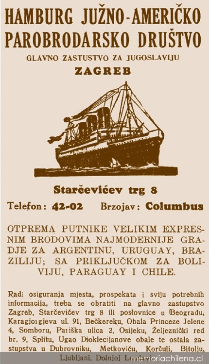 Ad of croatian cruiser en route to South America in the 19th Century.